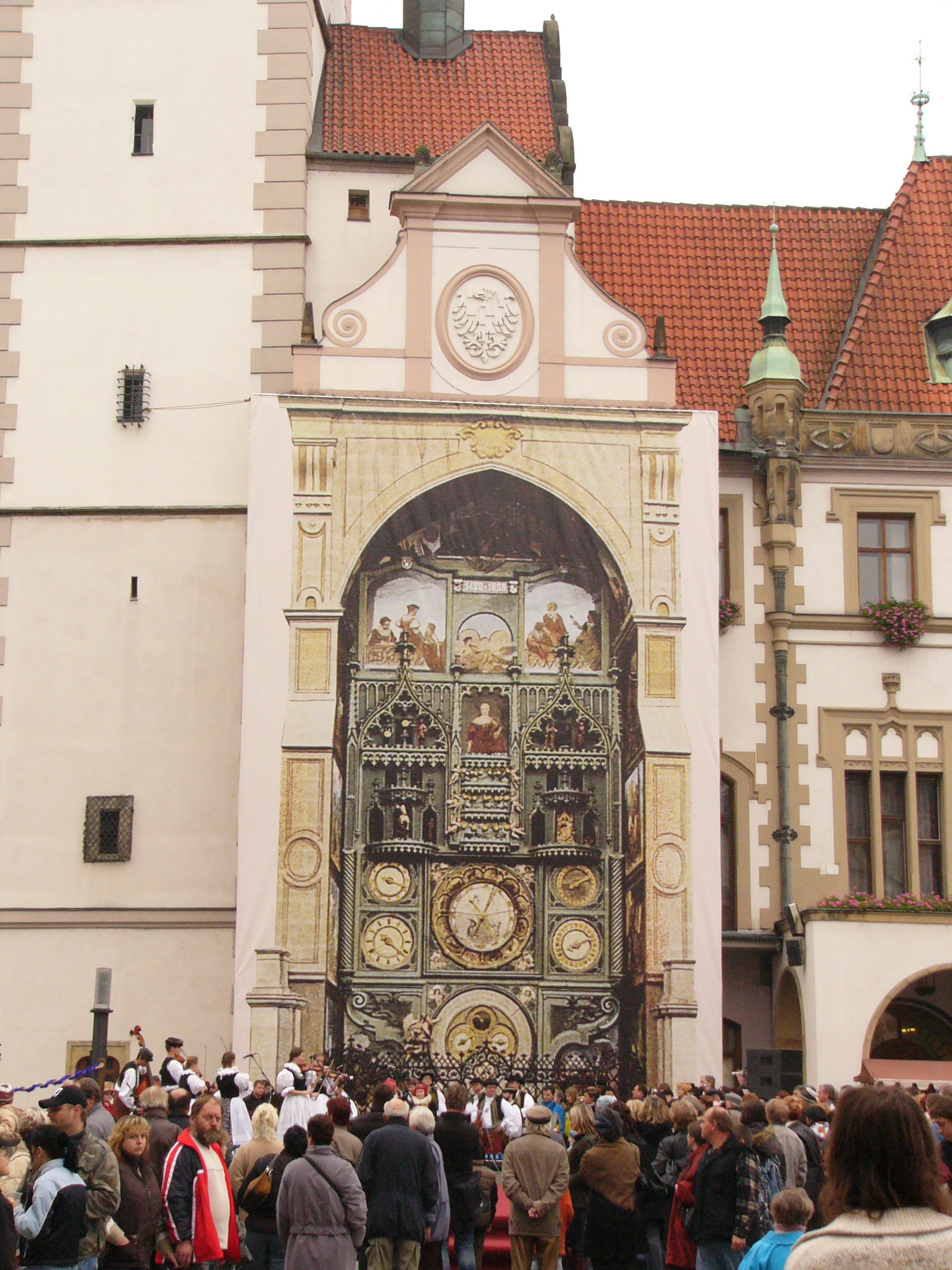 reconstruction (canvas over the today's real acronomical clock) of appearance of Astronomical clock at town hall in Olomouc from first half of 20th century (Czech Republic)